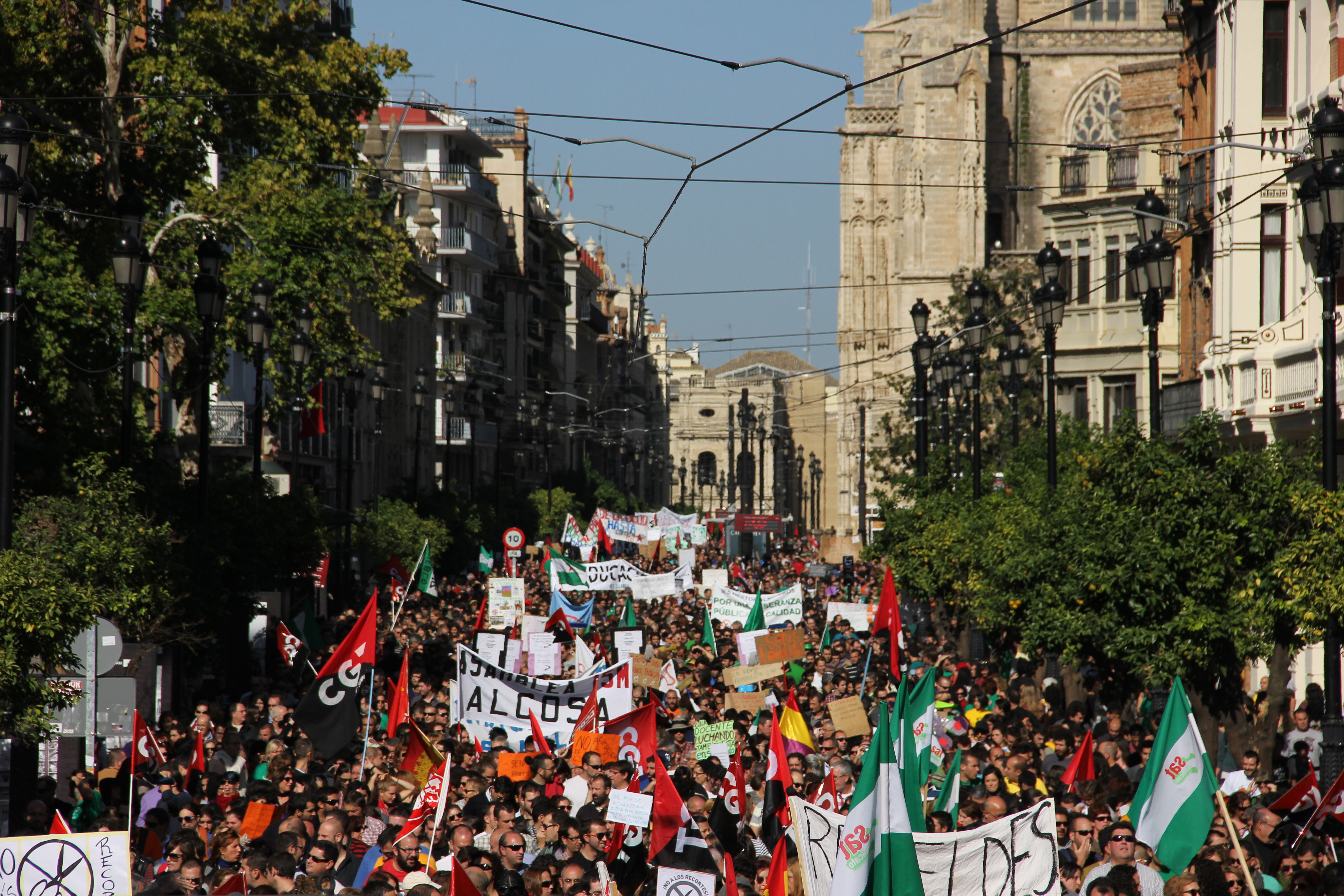 14N General Strike.